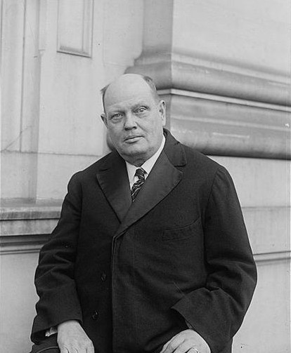 Francis Ford Patterson, Jr. (1867 - 1935), a U. S. Representative from New Jersey